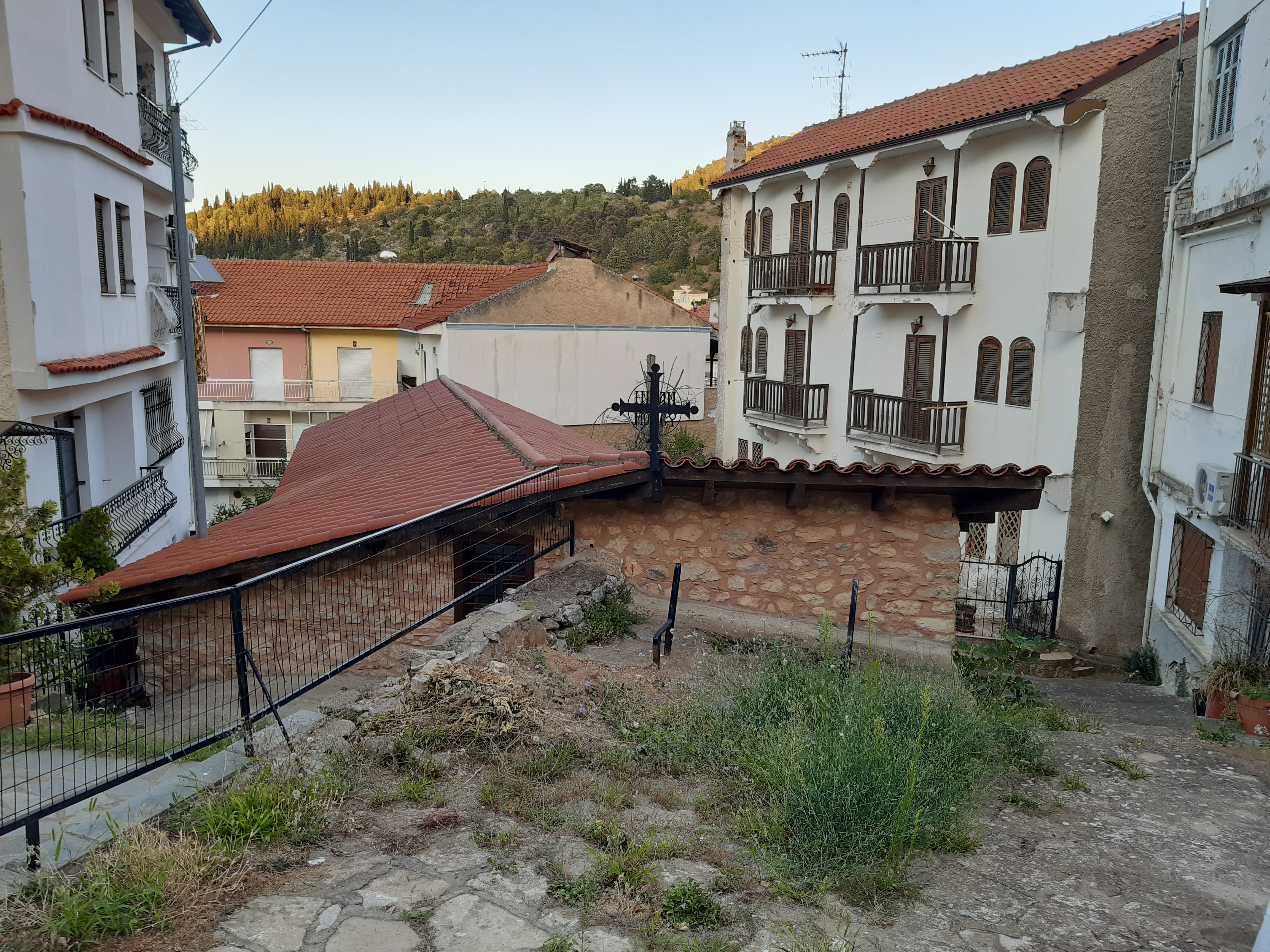 Saint Nicholas of Eupraxia Church